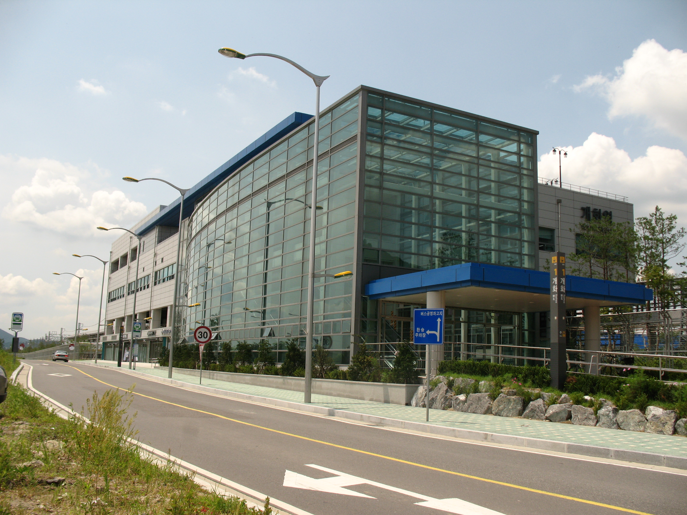 Seoul Subway Line 9 Gaehwa Station